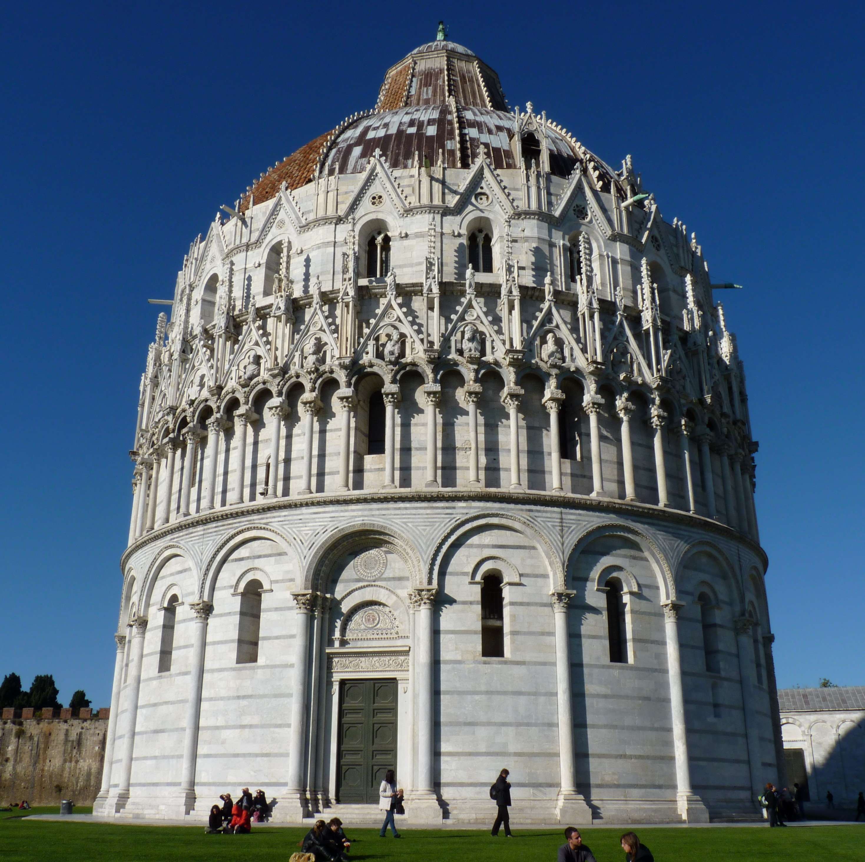 The Baptistry in Pisa.